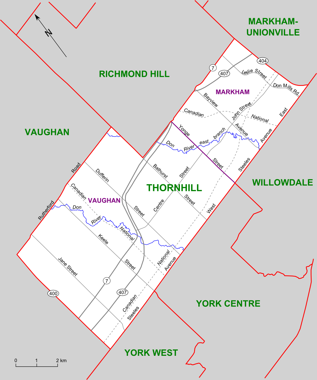 Map of the Ontario federal and provincial riding of Thornhill (boundaries defined in 1996, adopted federally in 1997 and provincially in 1999)